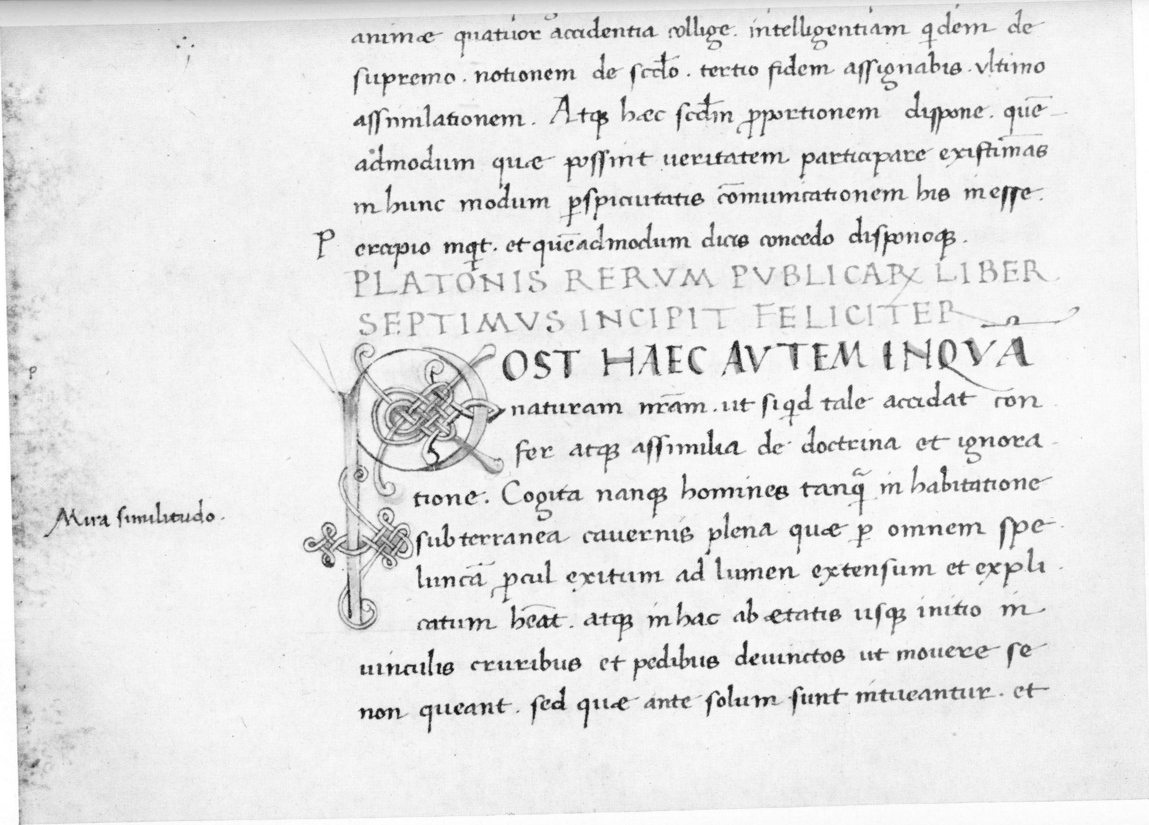 Plato, Republic, translated into Latin language by the Humanist Antonio Cassarino. Rome, Biblioteca Apostolica Vaticana, Vat. lat. 3346, fol. 153v.